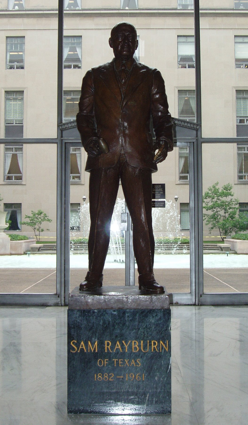 Statue of Sam Rayburn by sculptor Felix de Weldon. Created by user and released into the public domain.